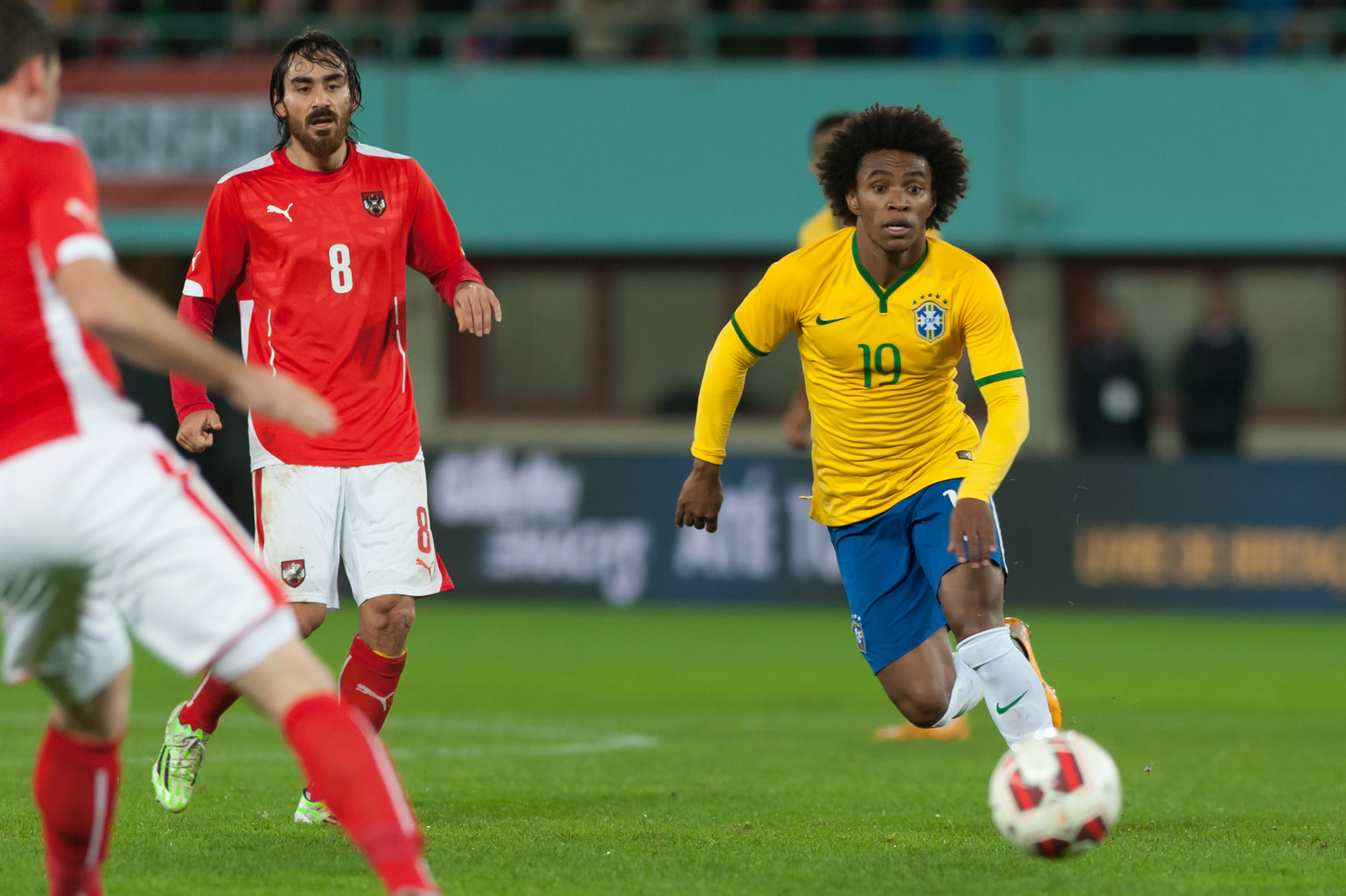 International Friendly Austria - Brazil November 18, 2014: Willian